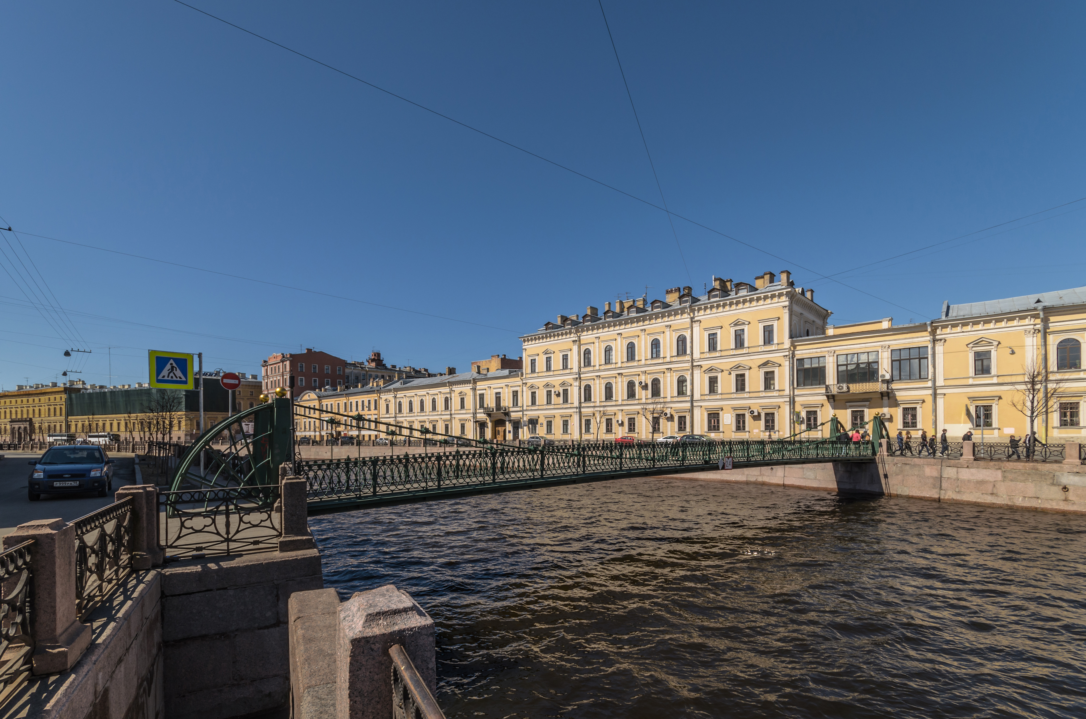 Moyka River Embankment in Saint Petersburg. Pochtamtsky Bridge